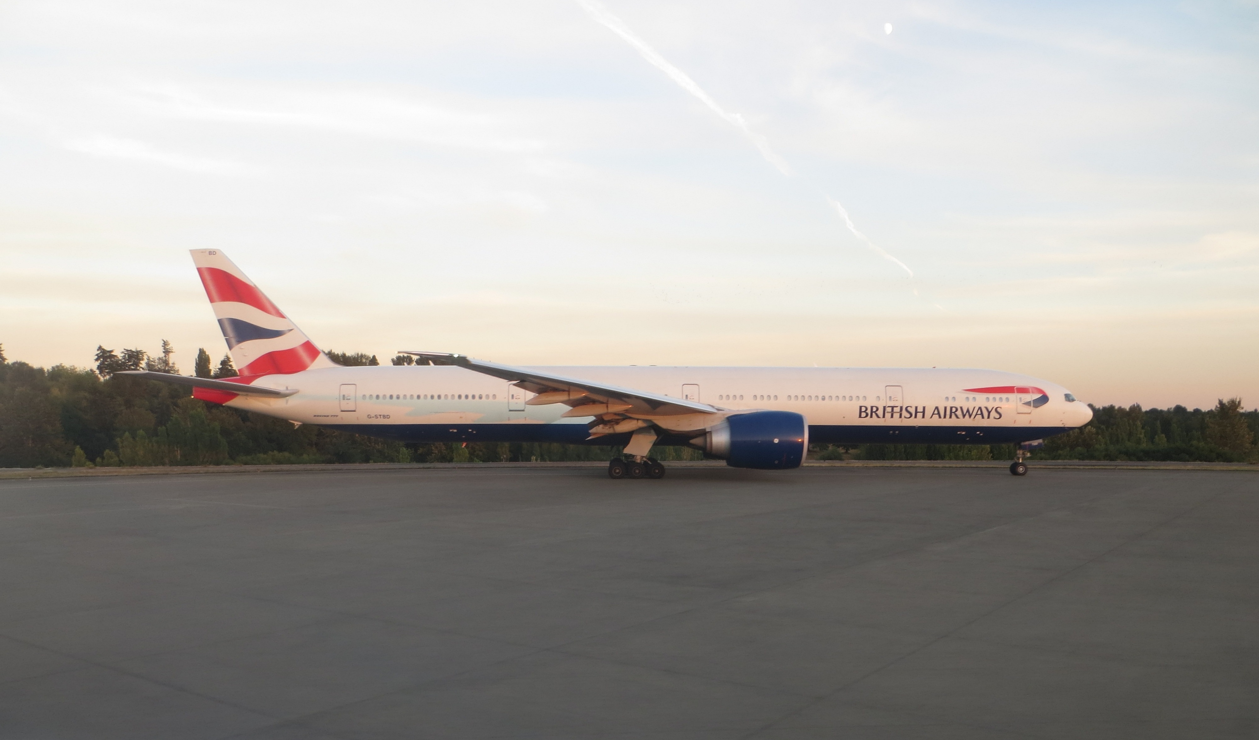 British Airways Boeing 777-300ER registered G-STBD at Seattle–Tacoma International Airport. Waiting at the runway to depart for Heathrow as Flight 48